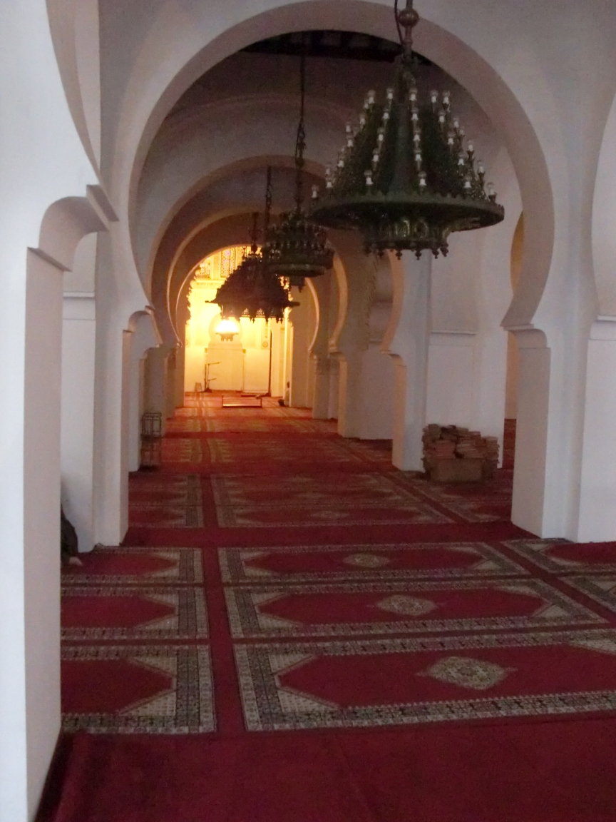 Al-Karaouine University (Al-Qarawiyyin) in the city of Fes, Morocco